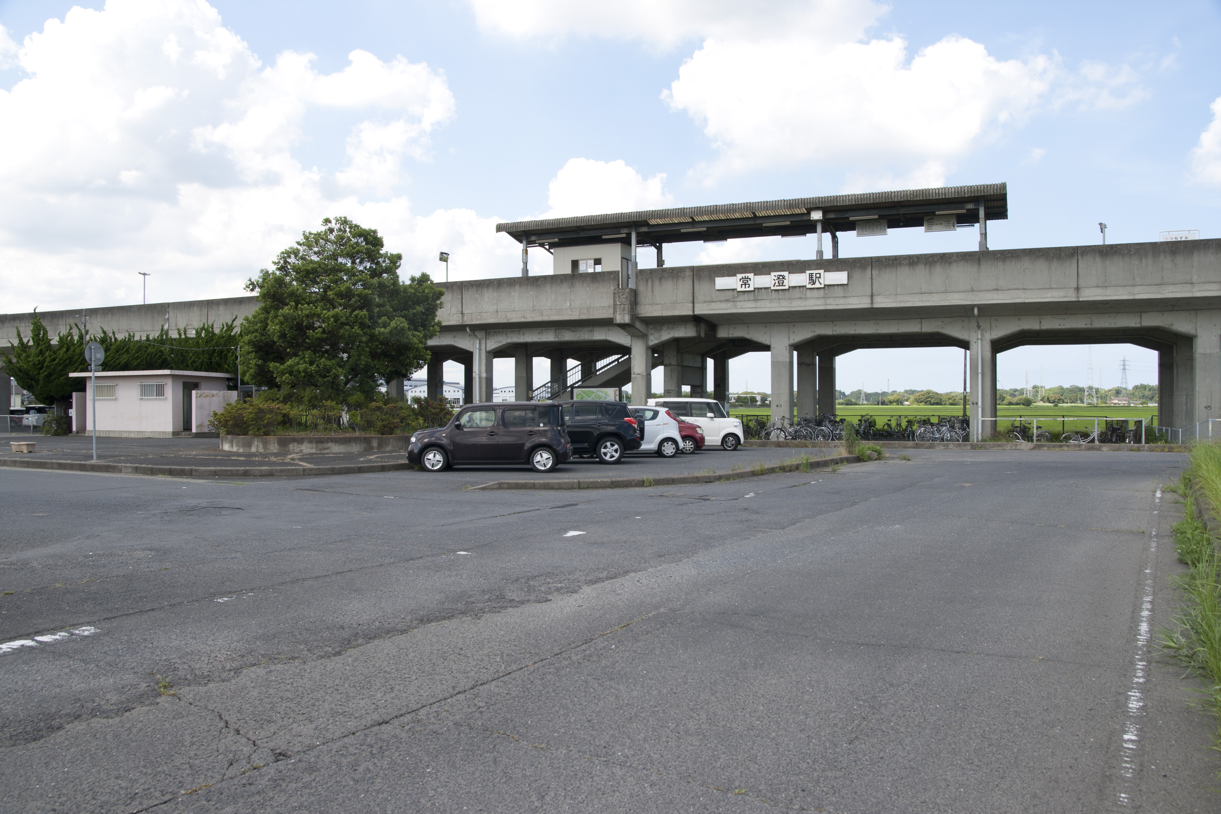 Tsunezumi Station in Mito City, Ibaraki Prefecture, Japan